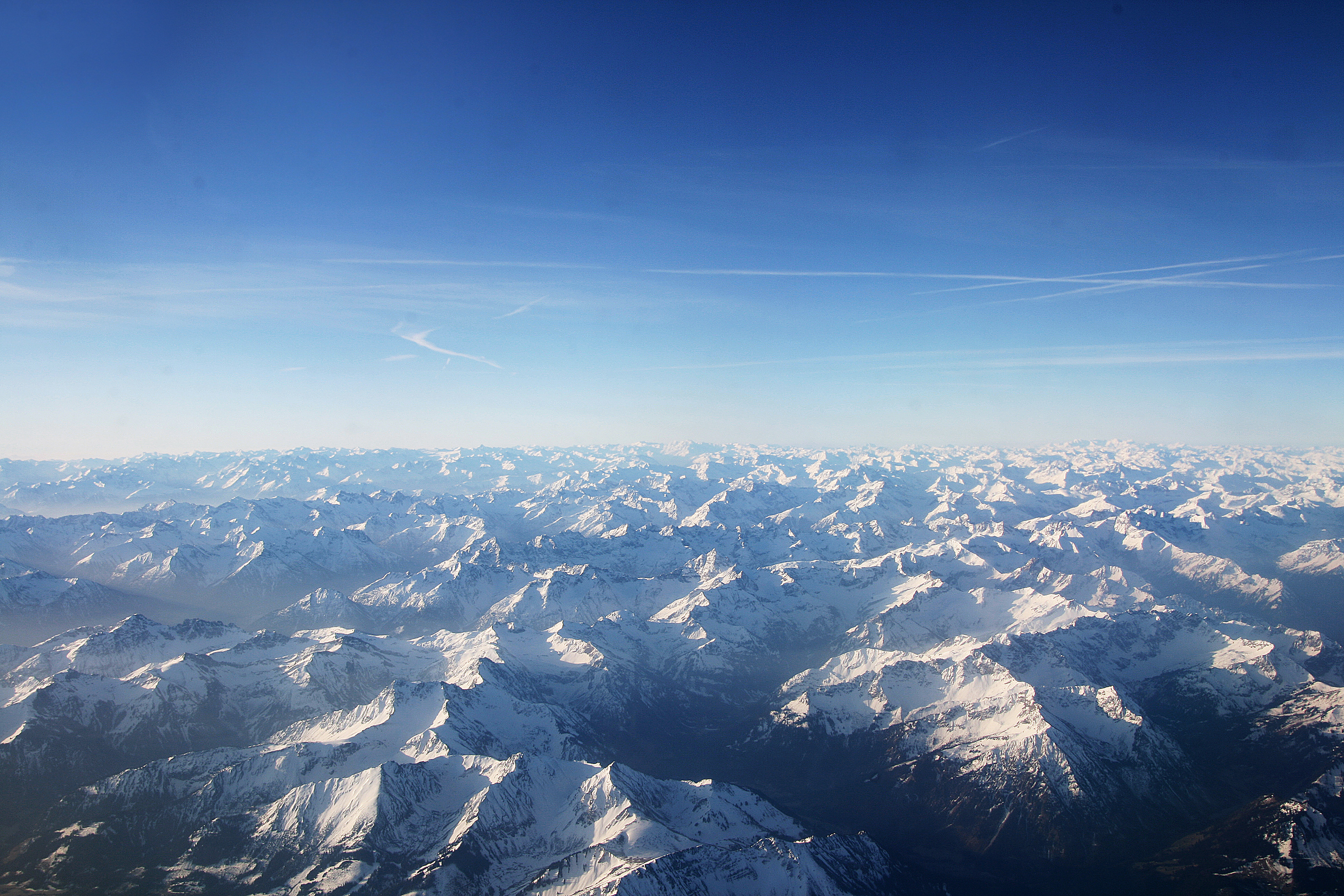 Description: The Alps at Lindau heading south.